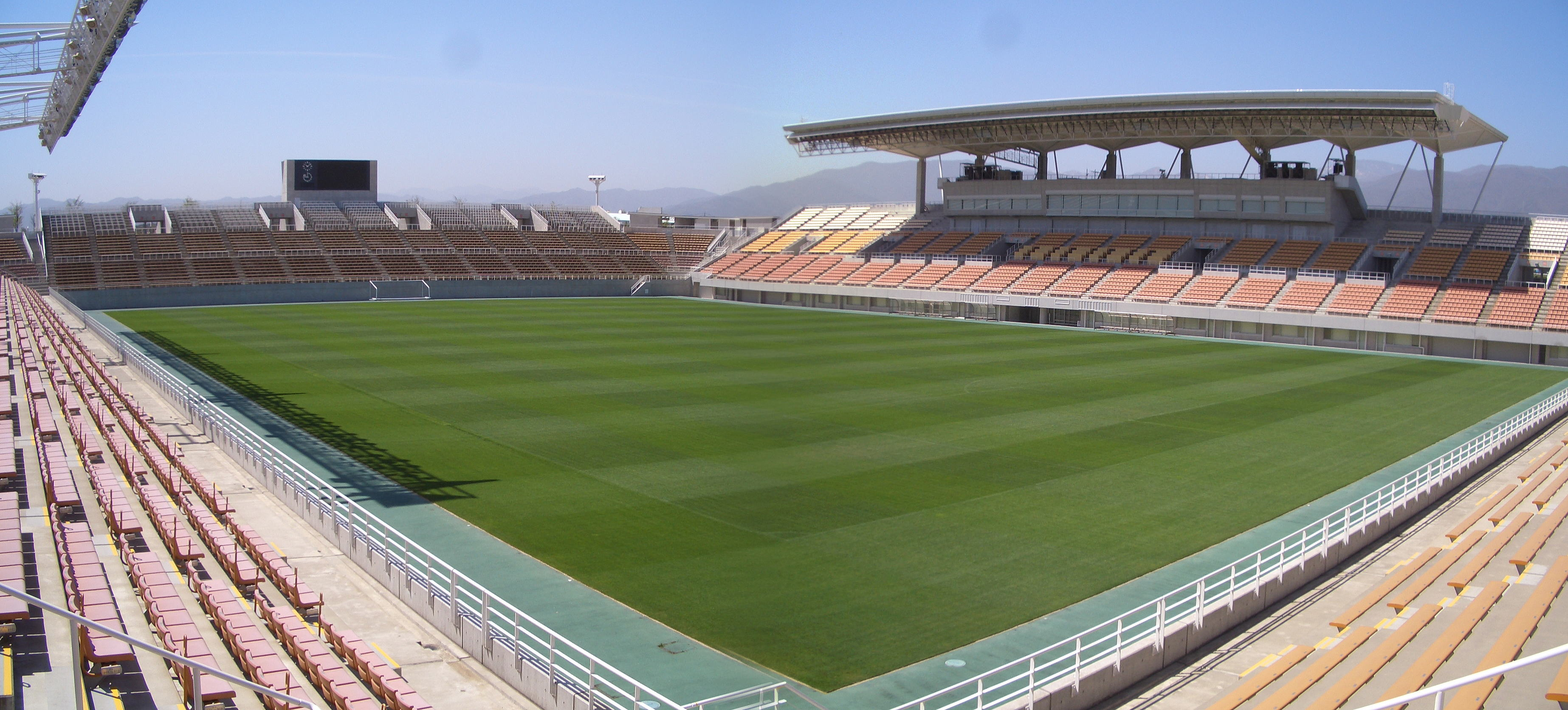 Matsumoto Global Park Football-Stadium. (Another name:Alwin)